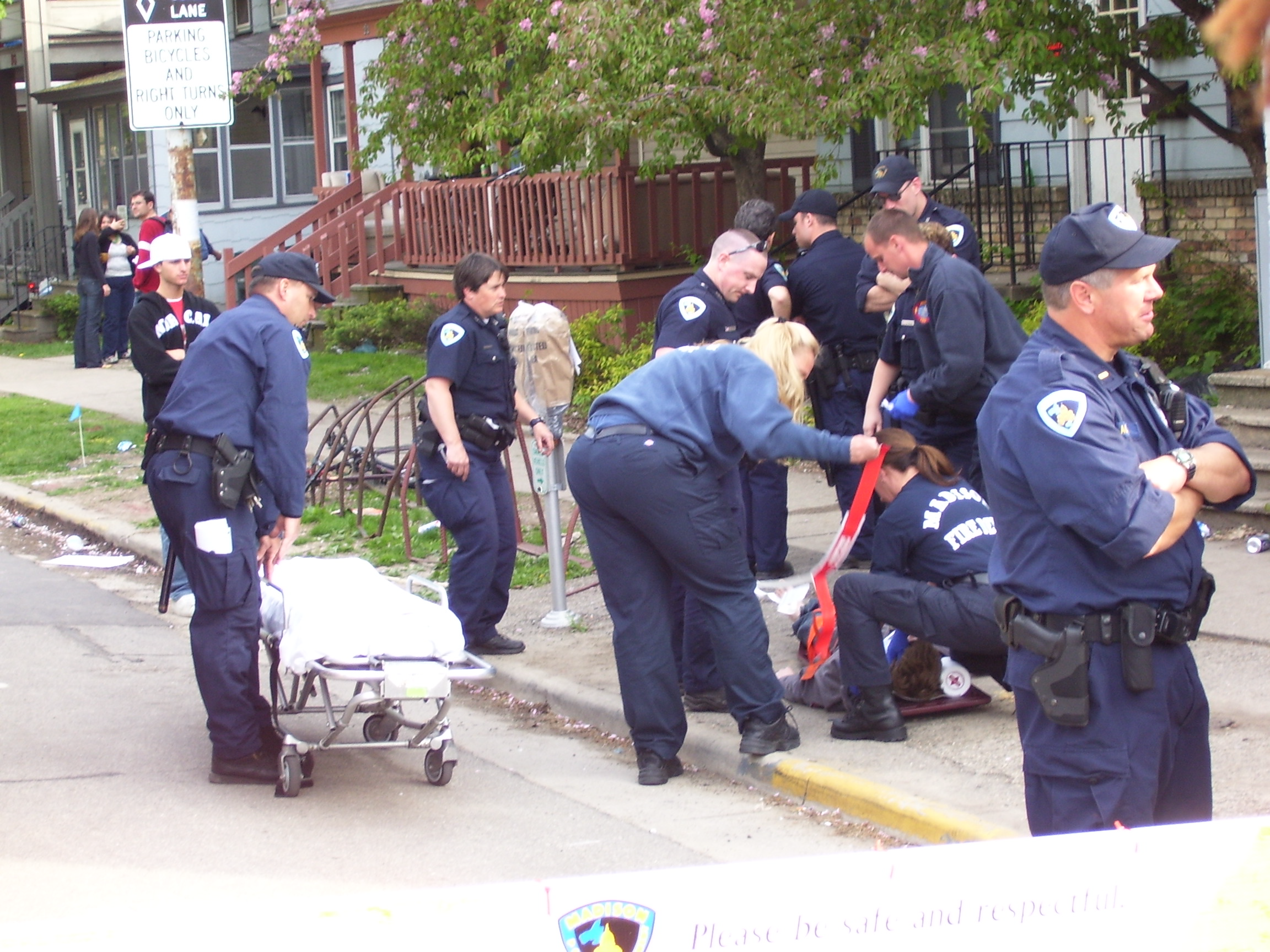 Madison police loading an unconscious party-goer onto a stretcher.